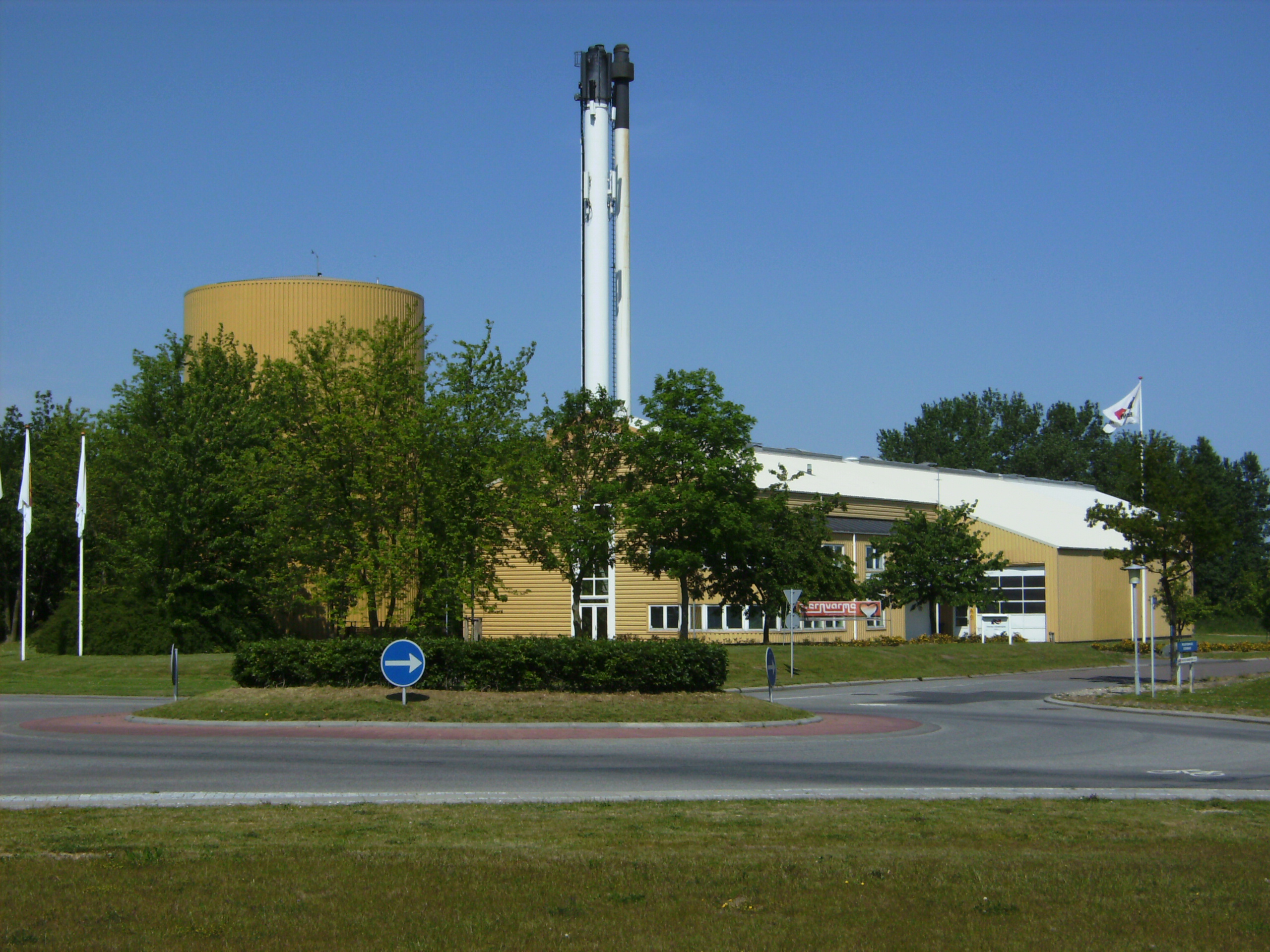 Nysted heat-only boiler station (straw-fired) in Nysted, Denmark